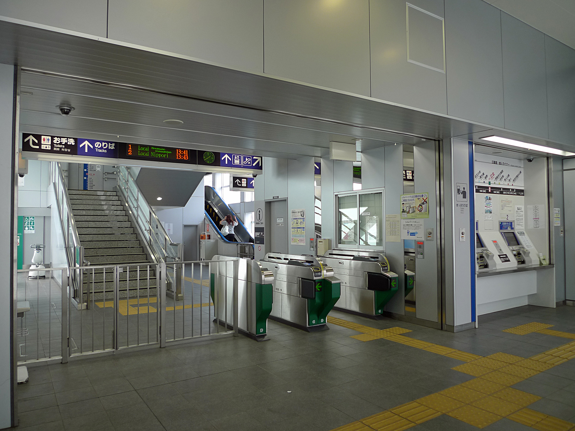 Kohoku station gate,Nippori-Toneri Liner.